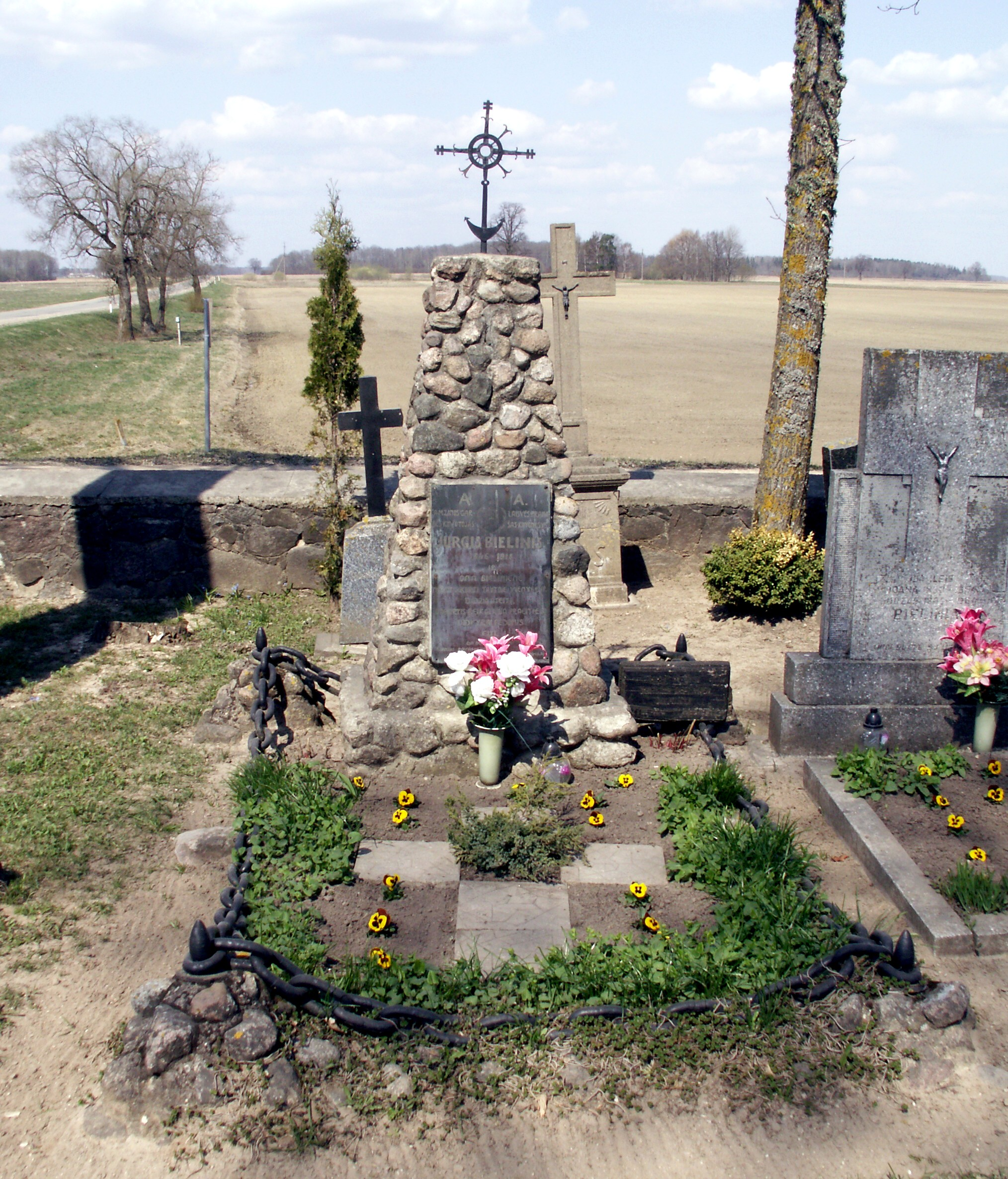 grave of Jurgis Bielinis in Suostas cemetery, Biržai district, Lithuania